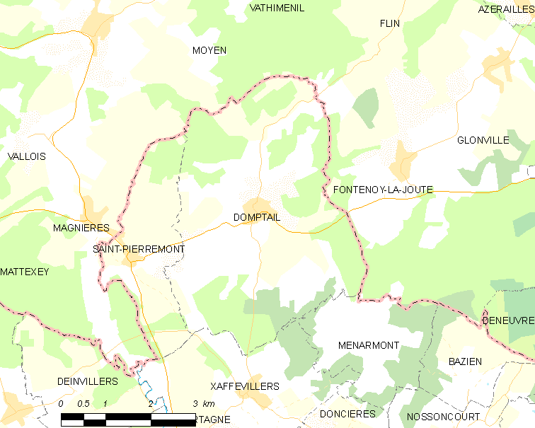 Map of French municipality Domptail